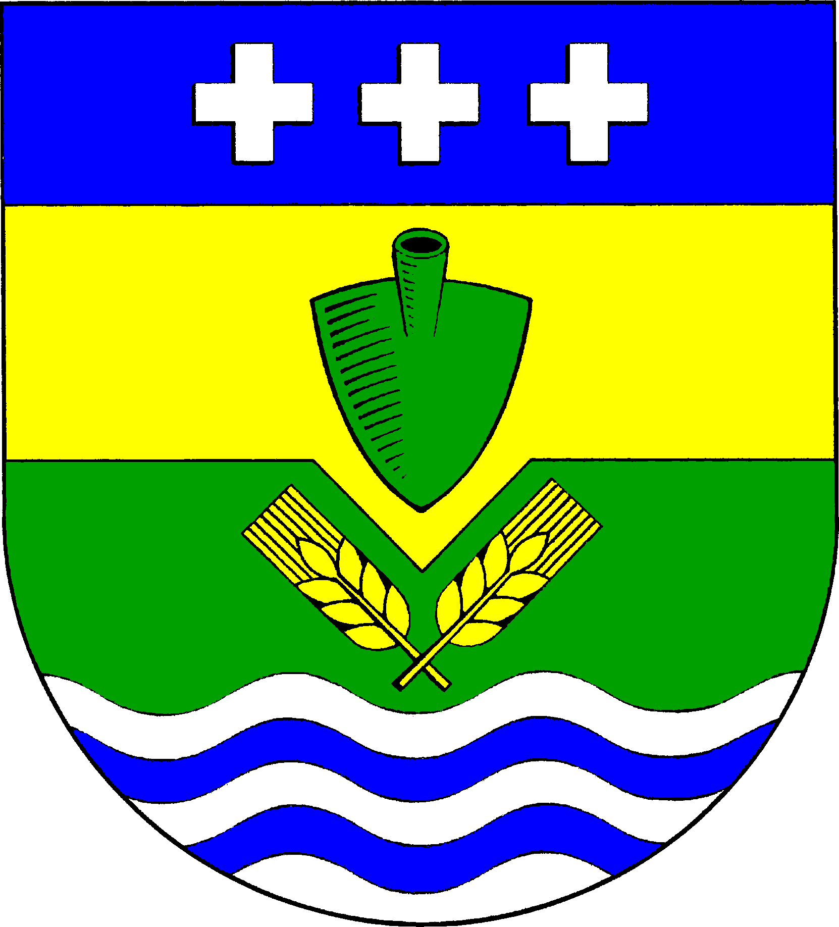 Coat of arms of the Amt (county) Nordstrand in Schleswig-Holstein, Germany.